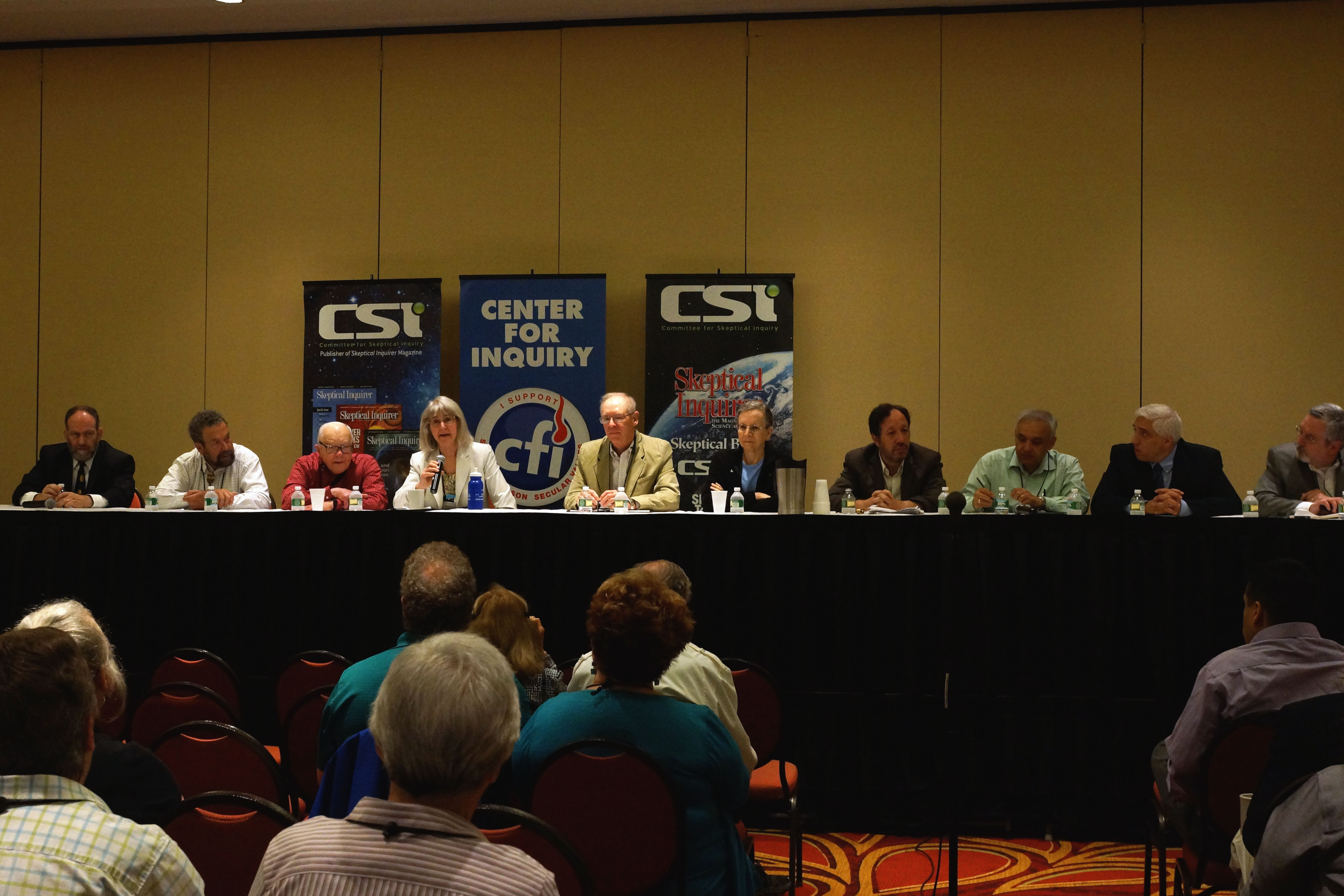 The Executive Council of the Committee for Skeptical Inquiry (CSI) answered members' questions during the Center for Inquiry (CFI) Reason for Change conference, Amherst, New York, June 2015